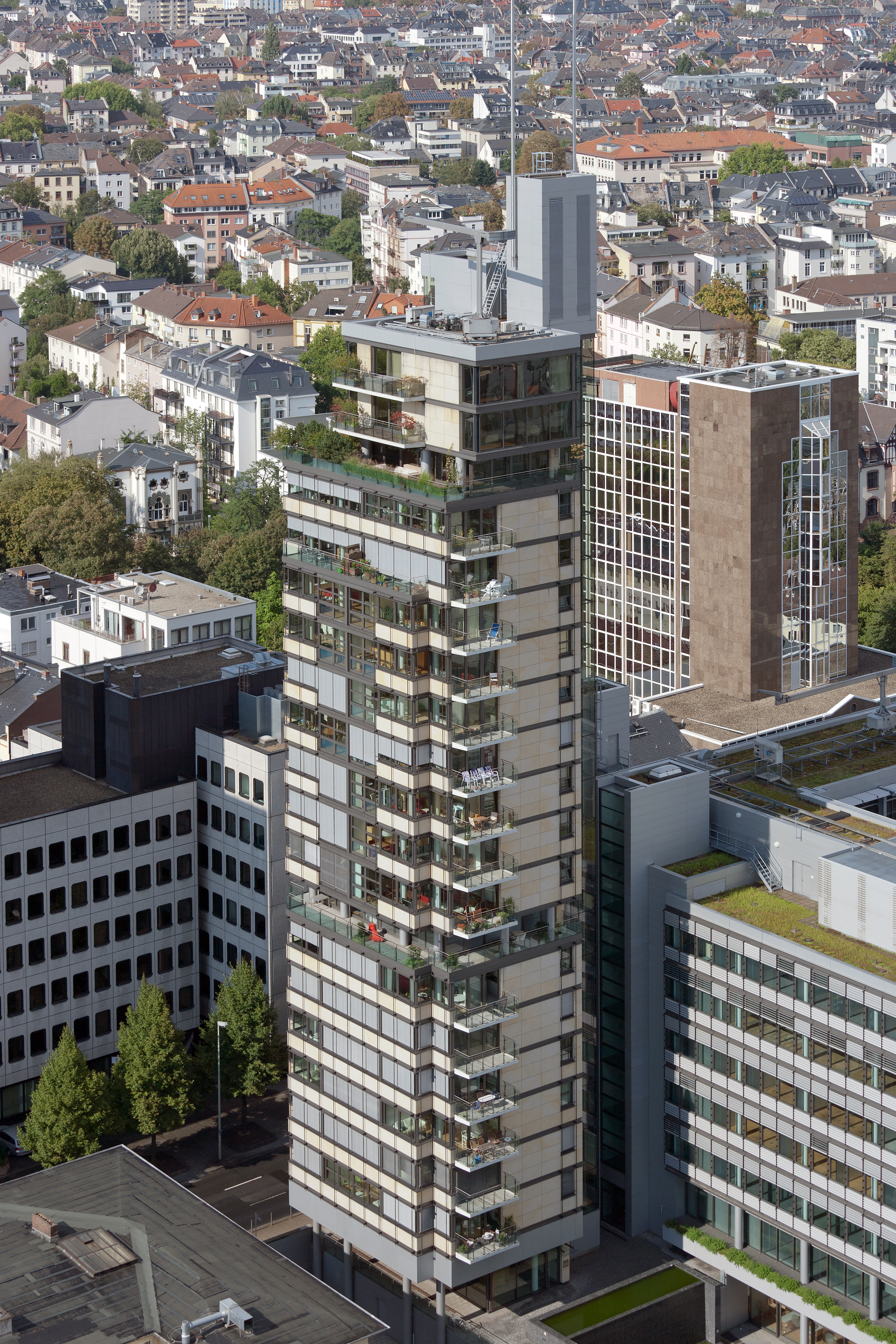 Frankfurt on the Main: Skylight, detail of the residence tower as seen from the Nextower